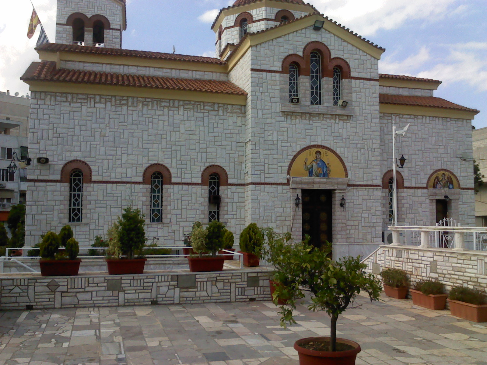 Agios Fanourios Drapetsonas